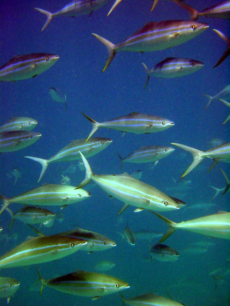 Rainbow runners (Elagatis bipinnulata) Image ID: reef0717, NOAA's Coral Kingdom Collection Location: Northwest Hawaiian Islands